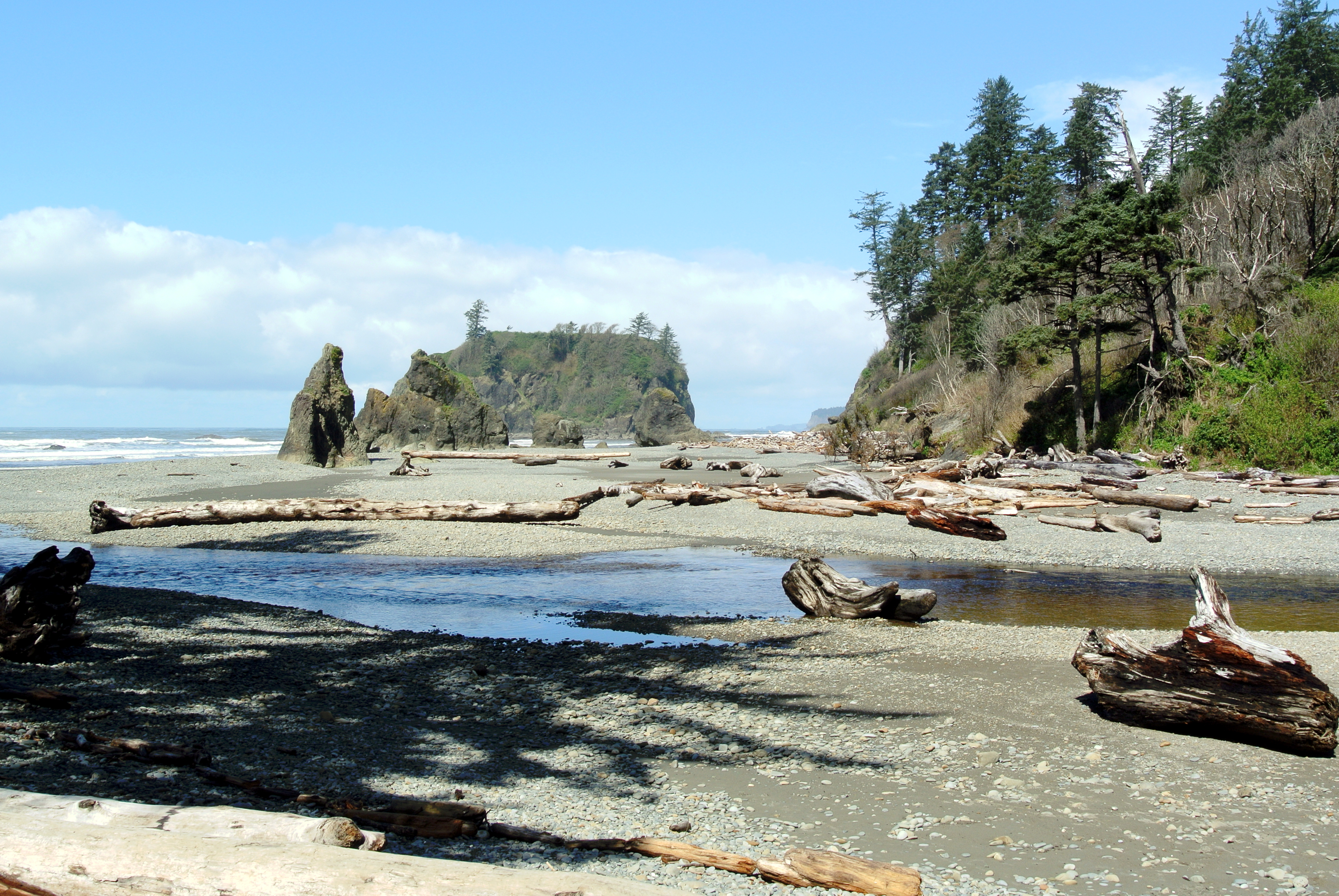 Cedar Creek and Abbey Island seen from Ruby Beach, Kalaloch Area, Olympic National Park. Nikon 1 V1 + 1 Nikkor VR 10-30mm f/3.5-5.6